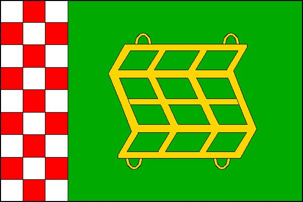 Municipal flag of Moravské Málkovice village, Vyškov District, Czech Republic.